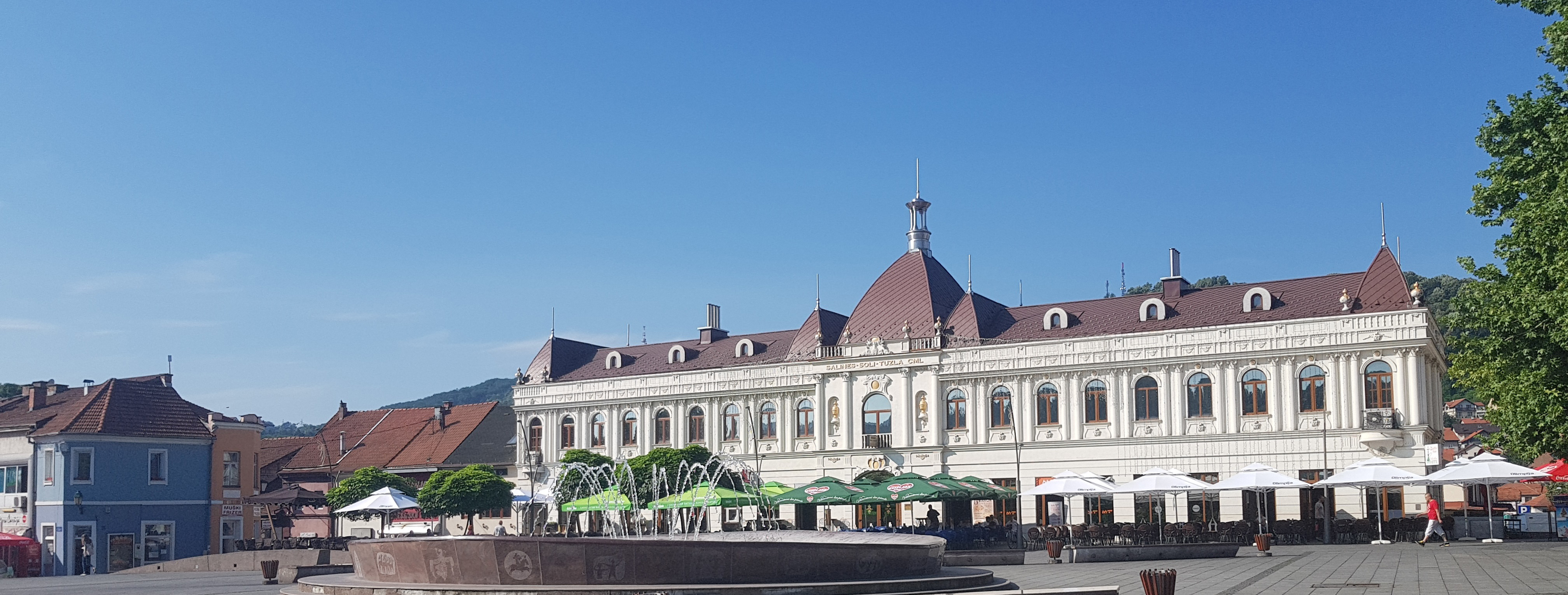 Tuzla's Square of Freedom, in translation Trg Slobode.